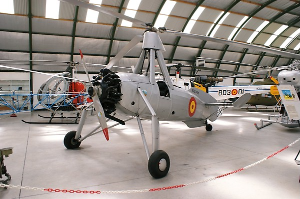 Cierva C19 Mk.IVP autogyro of AE. 4/10.